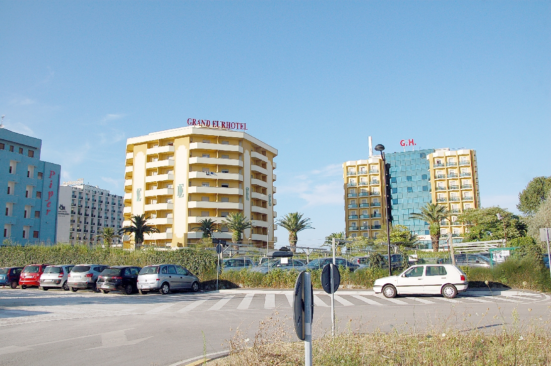 Montesilvano